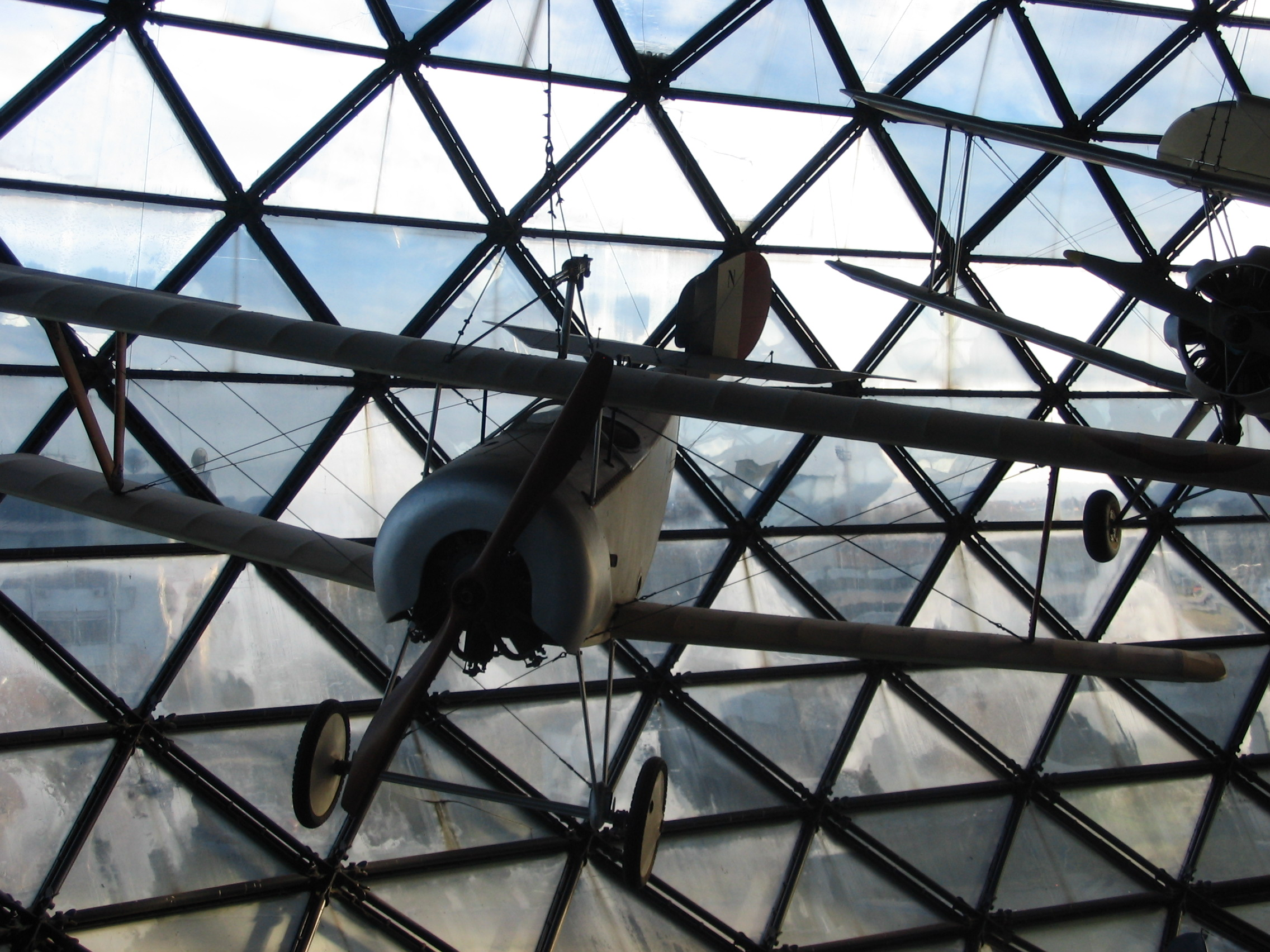 Nieuport 11 at Belgrade aviation museum.